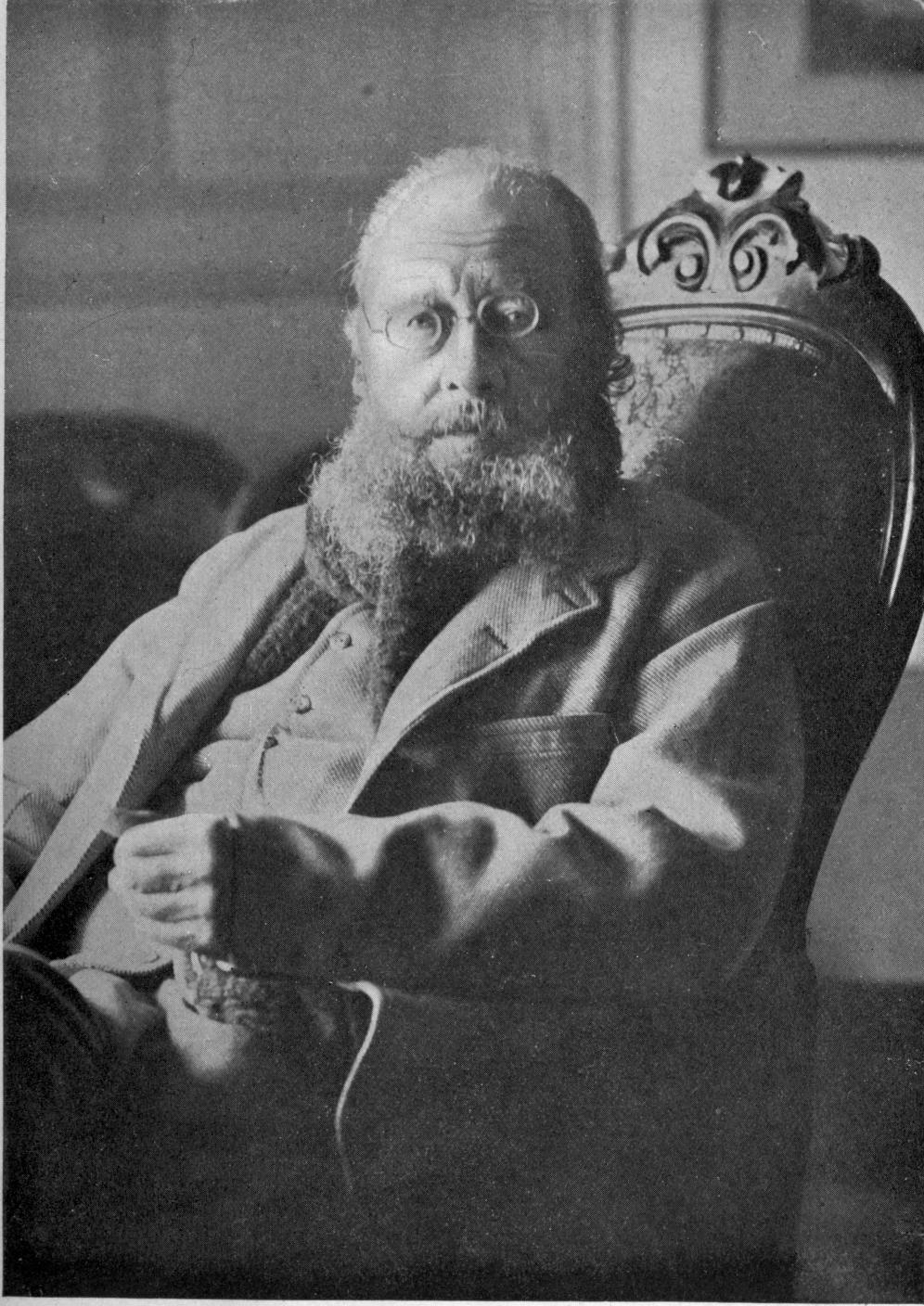 Edward Lear in 1887